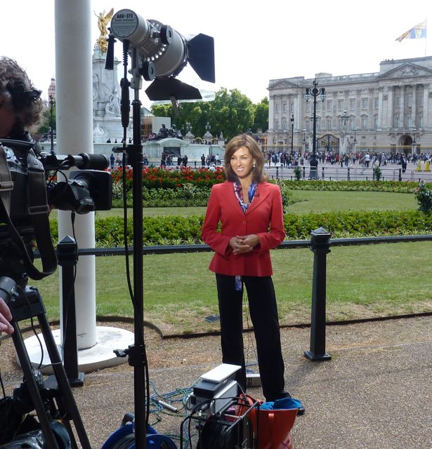 NBC Correspondent Janet Shamlian at Buckingham Palace